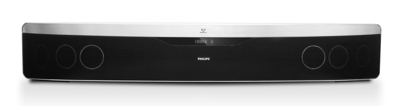 Philips Soundbar with Ambisound HTS9140